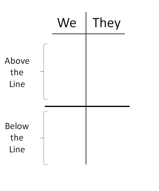 Mock-up of a typical rubber bridge scoring record for one rubber